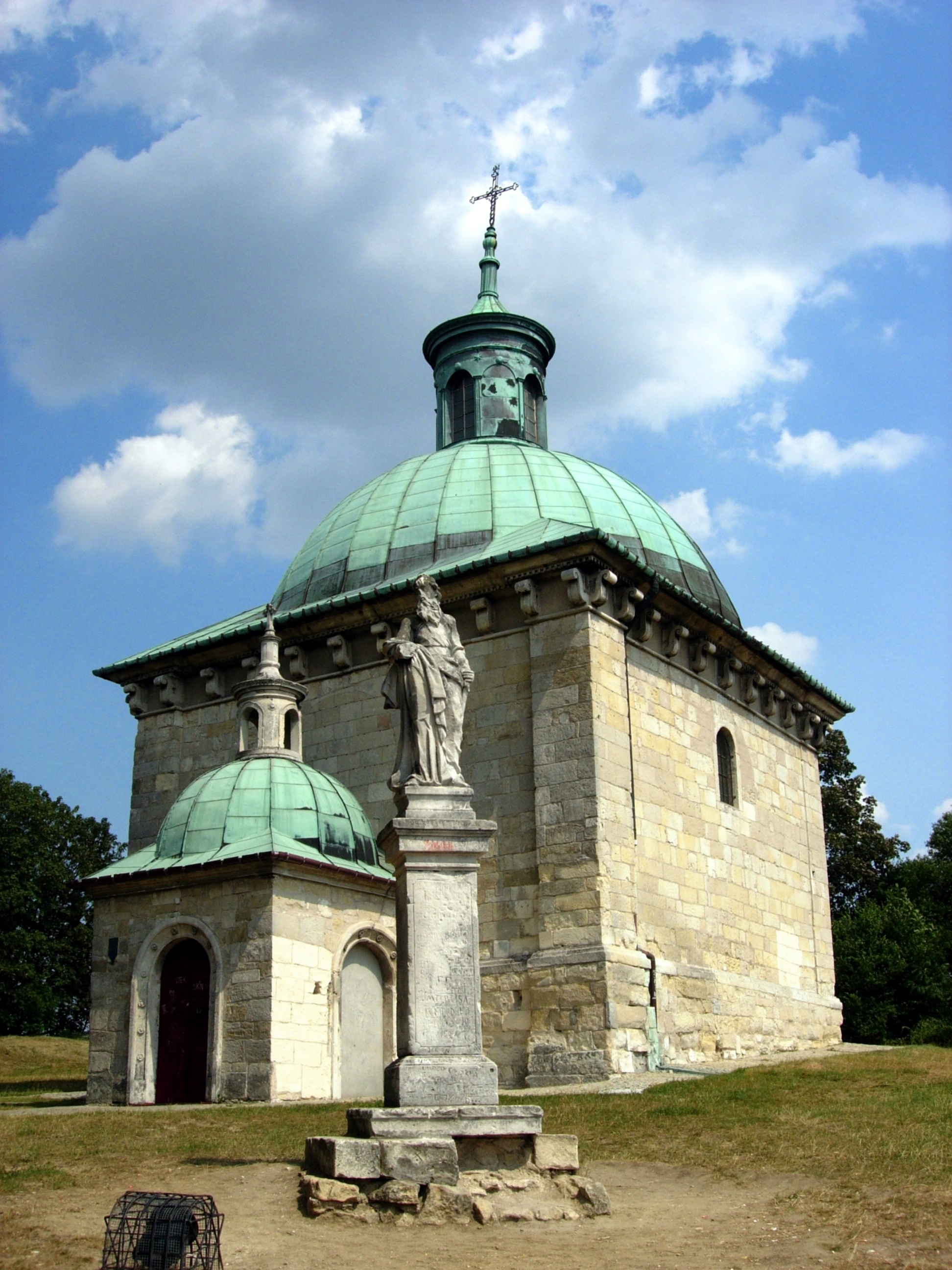 The chapel of St. Anne in Pińczów and statue of St. Paul Apostle, Poland